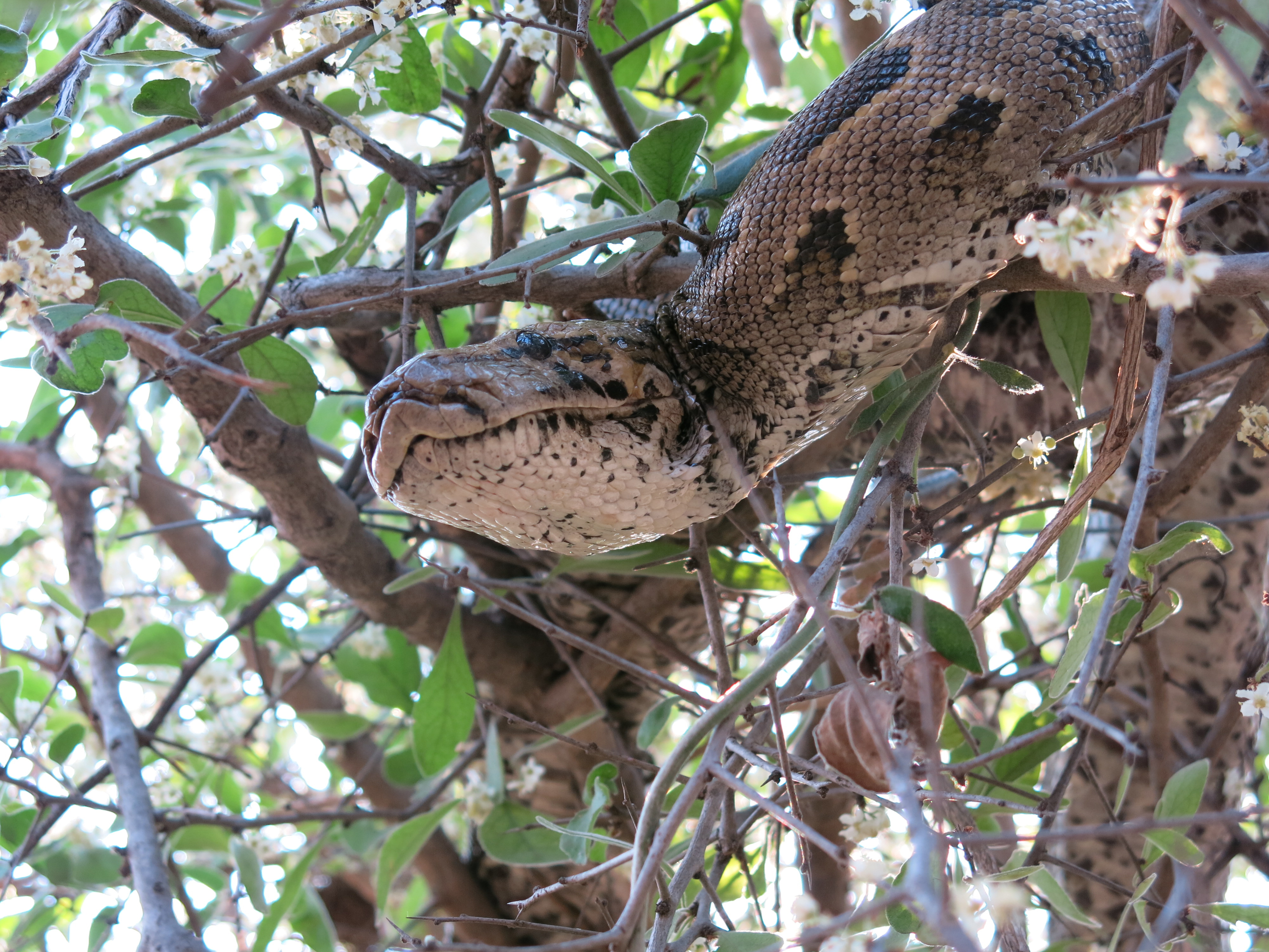 Python natalensis, Makuleke, Kruger National Park, South Africa